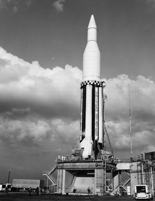 Saturn C-1 (SA-1) stands ready on complex 34 for launching